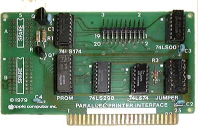 Image of the original Apple II Parallel Printer card. The printer connects via a ribbon cable to the 20-pin connector in the center at the top of the card.